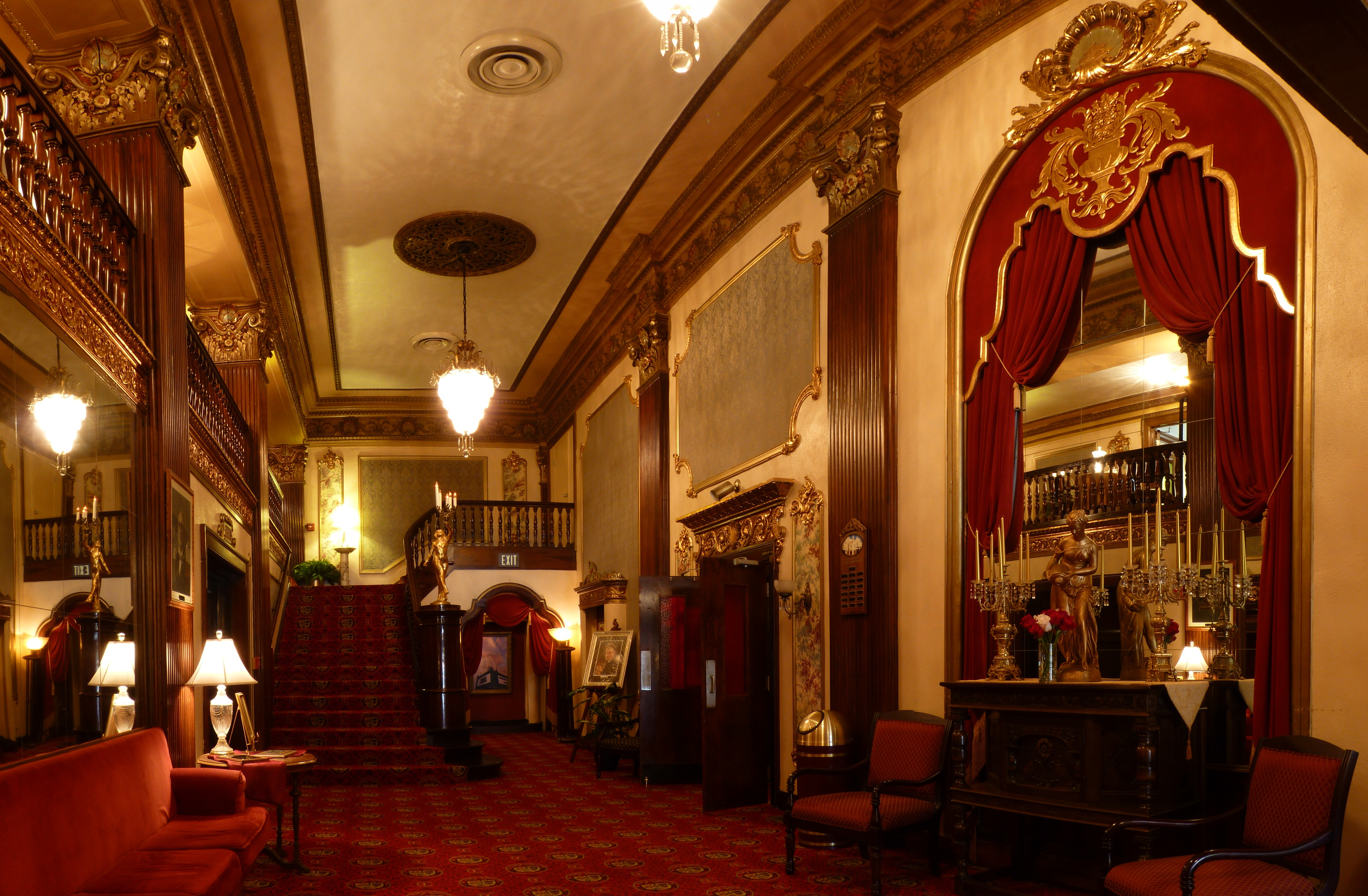 Photo of the interior of the Coleman Theater Beautiful, panoramic view taken using a Panasonic FZ35 camera and processed with Hugin and The GIMP.